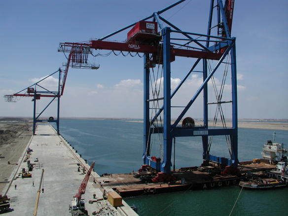 The 2nd quay crane and the 9th and 10th yard cranes have arrived in Port Said East Port.